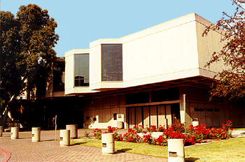 Author: Chuck Wike, Public Relations Director Glendale Public Library Source: Library-owned digital camera upload onto GPL server